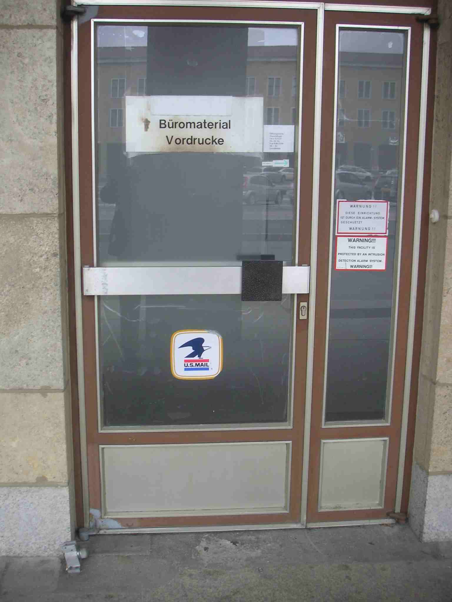 US Mail Logo at the former US Post Office at Tempelhof-Airport in March 2008